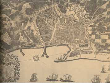 Map of Barcelona, 1640